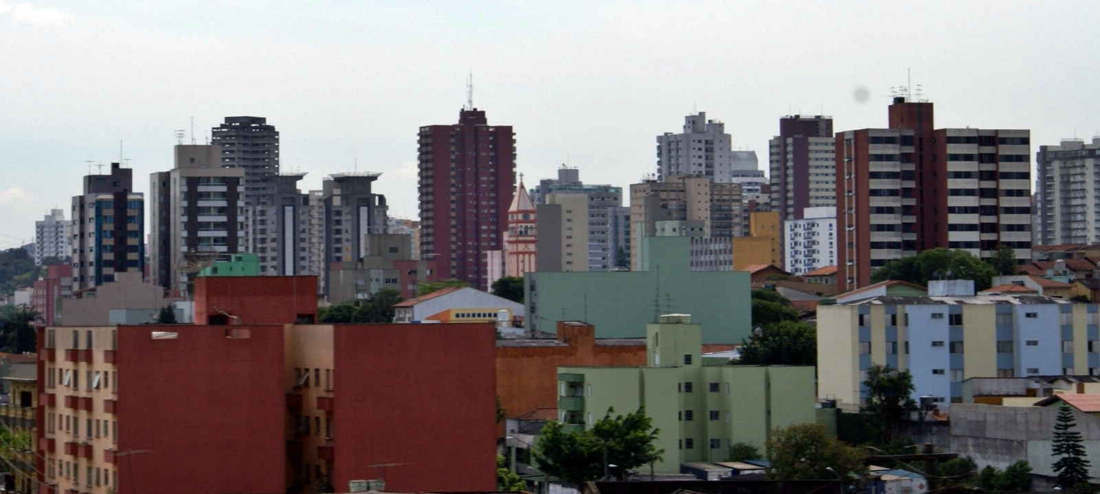 São Bernardo do Campo City, Brazil.